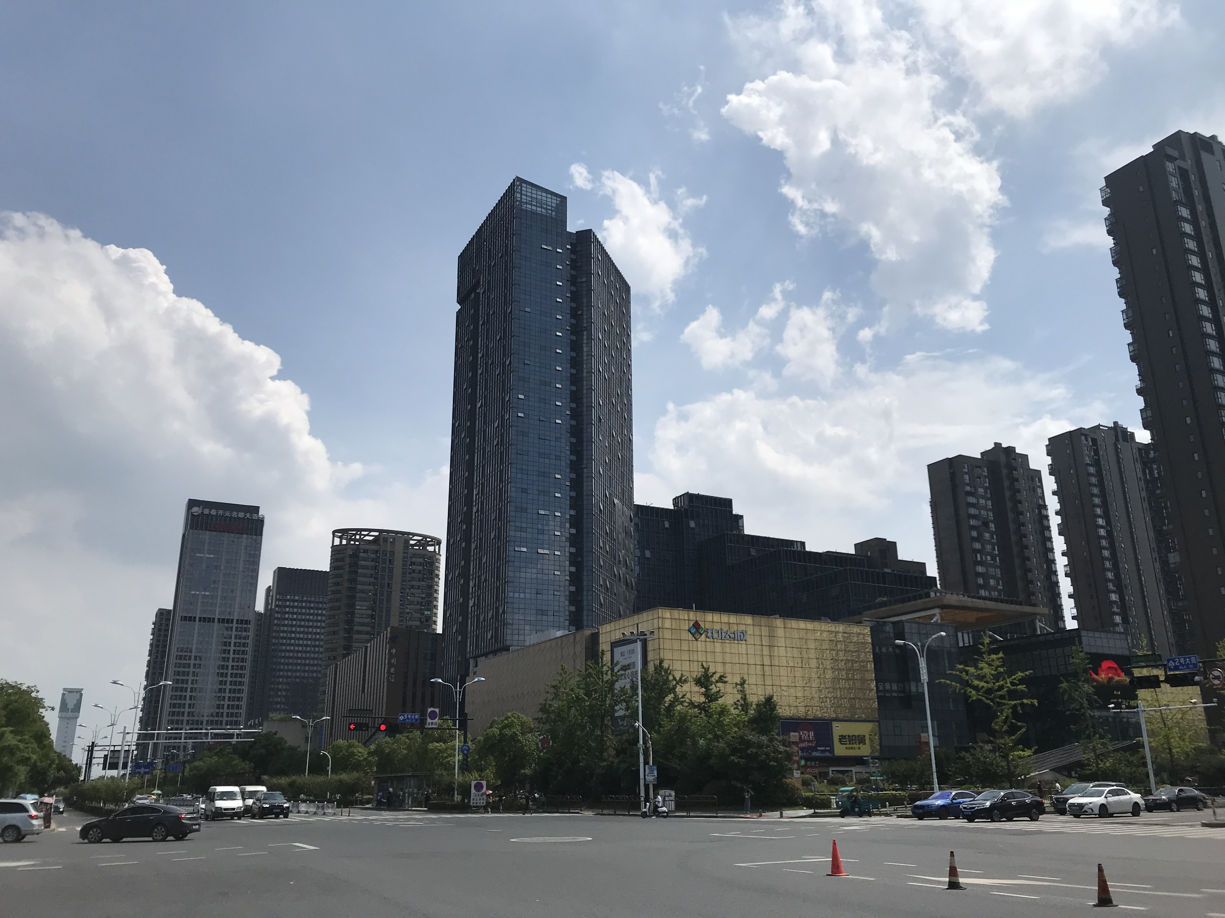 201806 Heda City. Heda may represents fro HEDA?